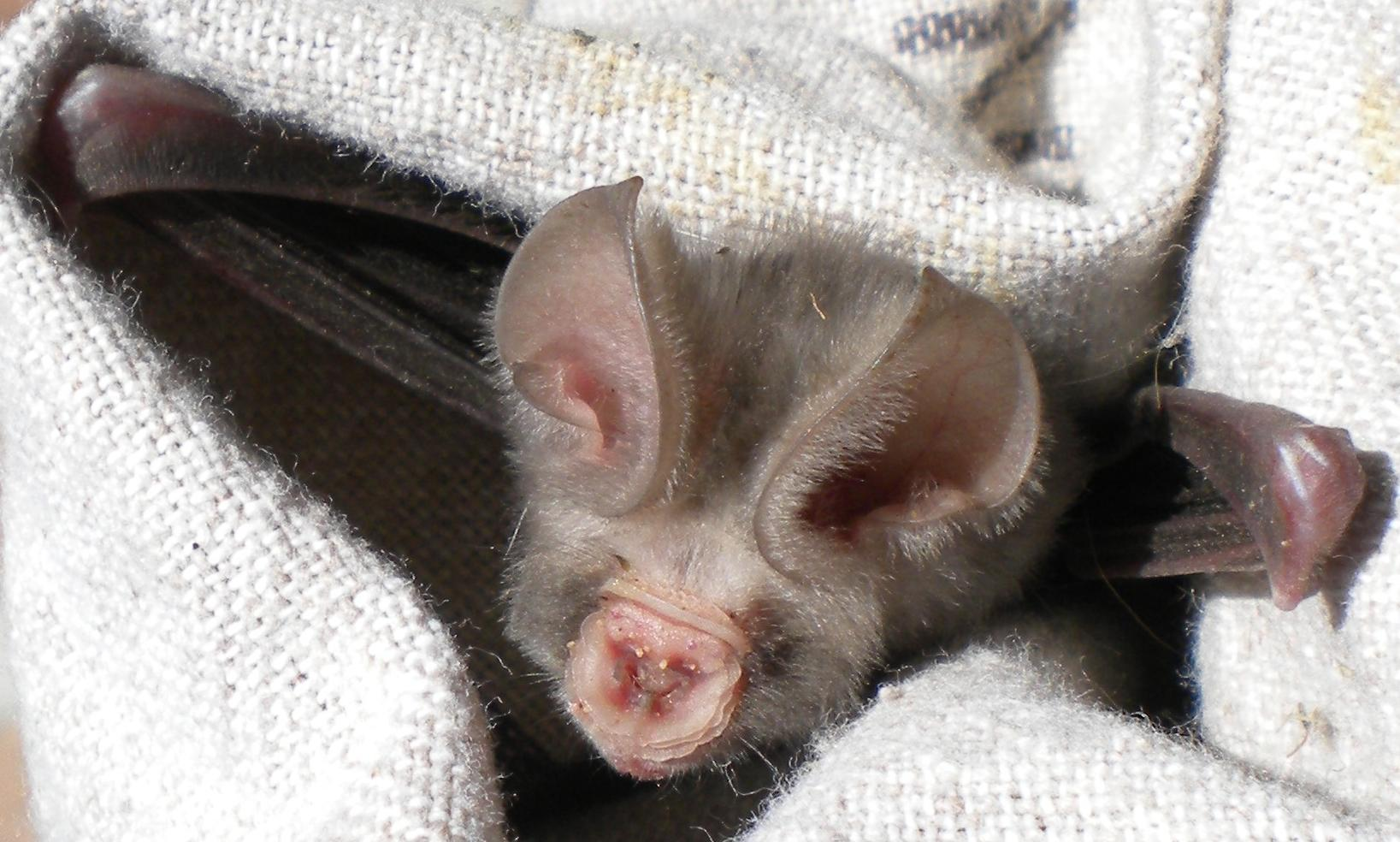 Sundevall's Leaf-nosed Bat